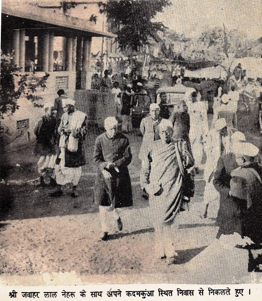 A historic image dating back to 1950, scanned from book "Bihar Vibhuti", SInce the picture belongs to year 1950.The work is in the public domain in India because its term of copyright has expired.Photographs created before 1958 are in the public domain 50 years after creation, as per the Indian Copyright Act 1911